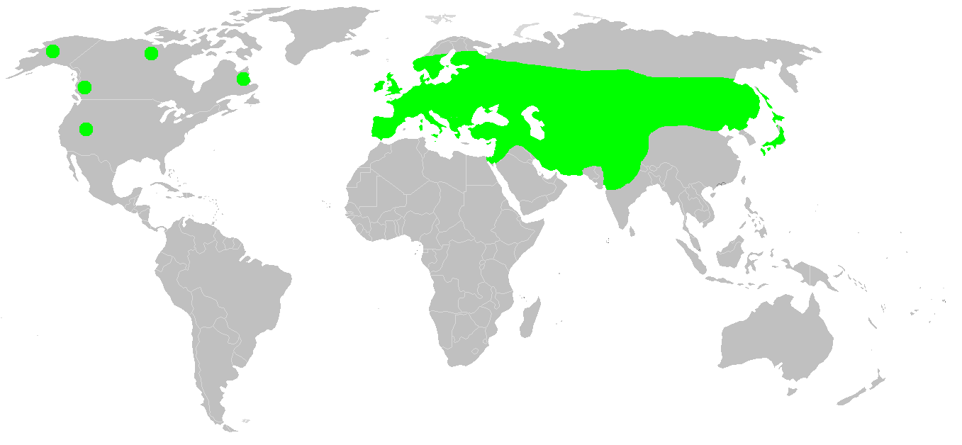 Known world distribution of Araniella cucurbitina, after British Arachnological Society, 2006.